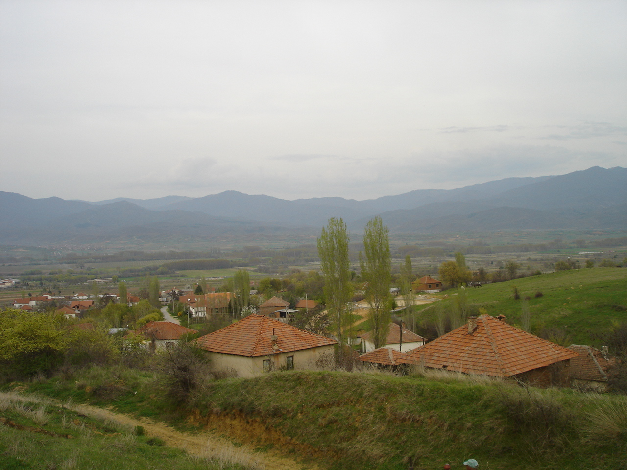 View of the village Suldurci, near Radoviš, Macedonia